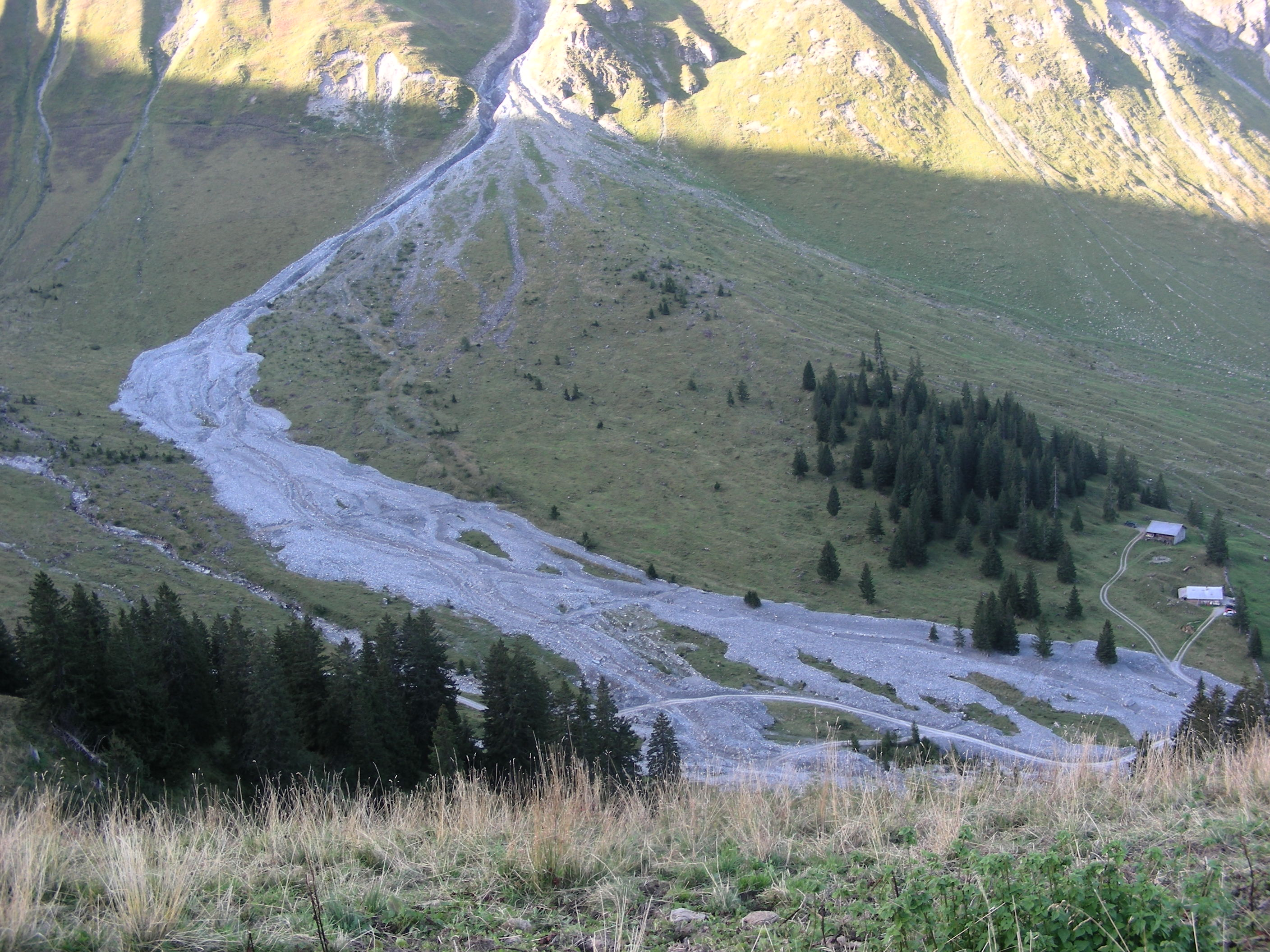 Storm Färmeltal